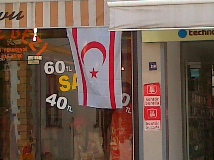 Flag of Northern Cyprus in Girne, July 2012.